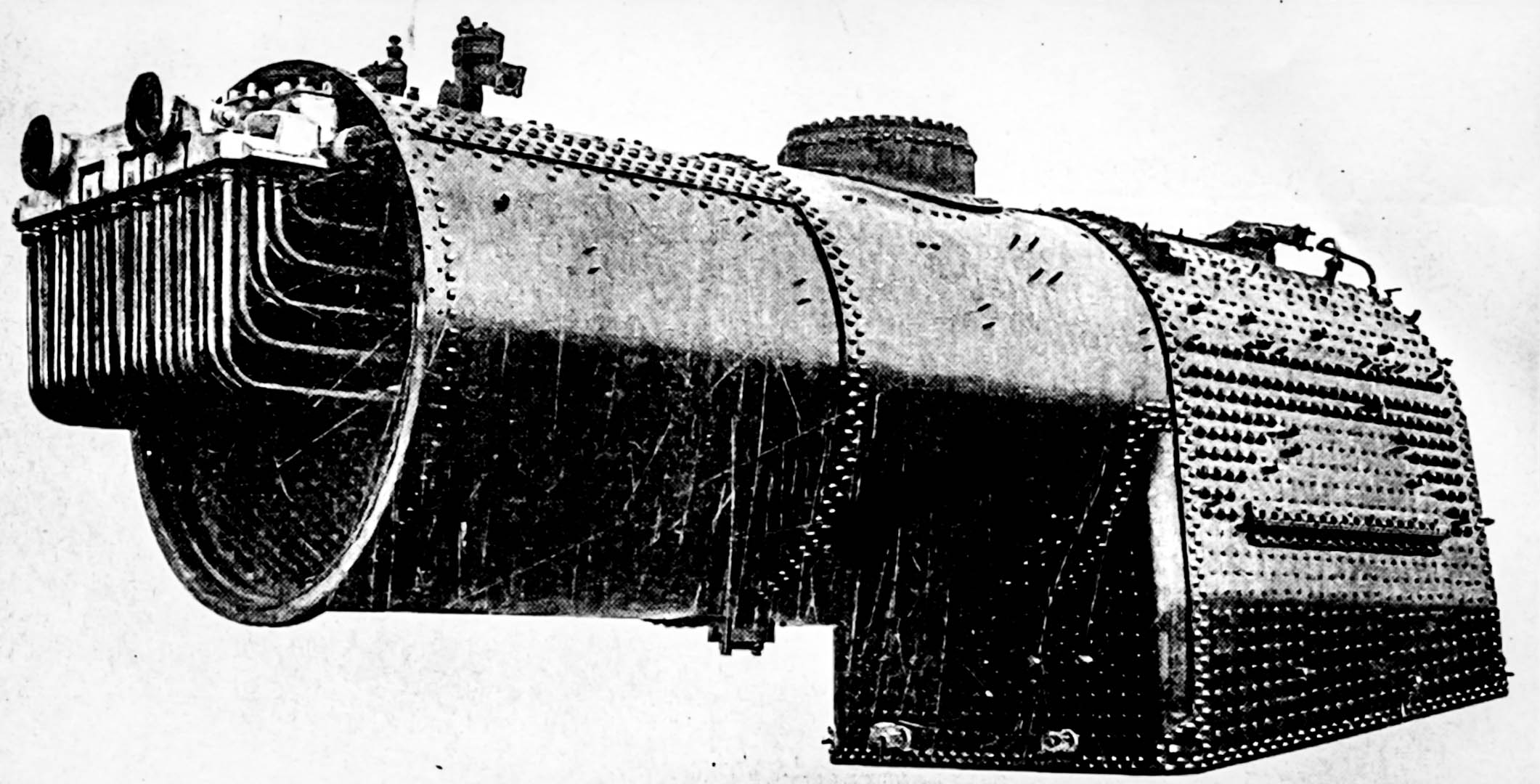 NSWGR AD60 Class Locomotive Beyer-Garratt Boiler